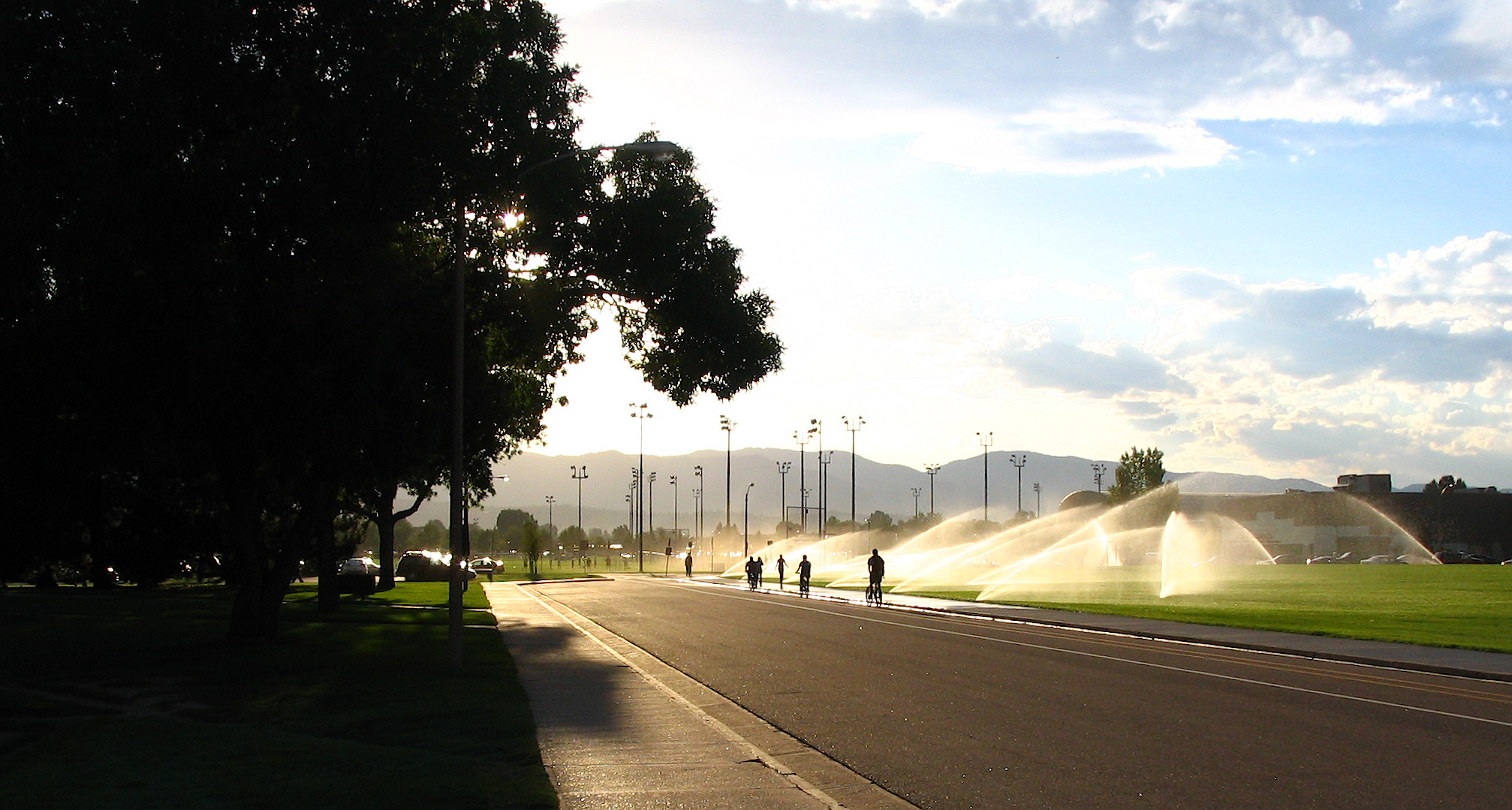 The campus of Colorado State University. View is facing west towards the Intermural fields.